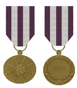 Kosovo Medal of the Dutch Armed Forces